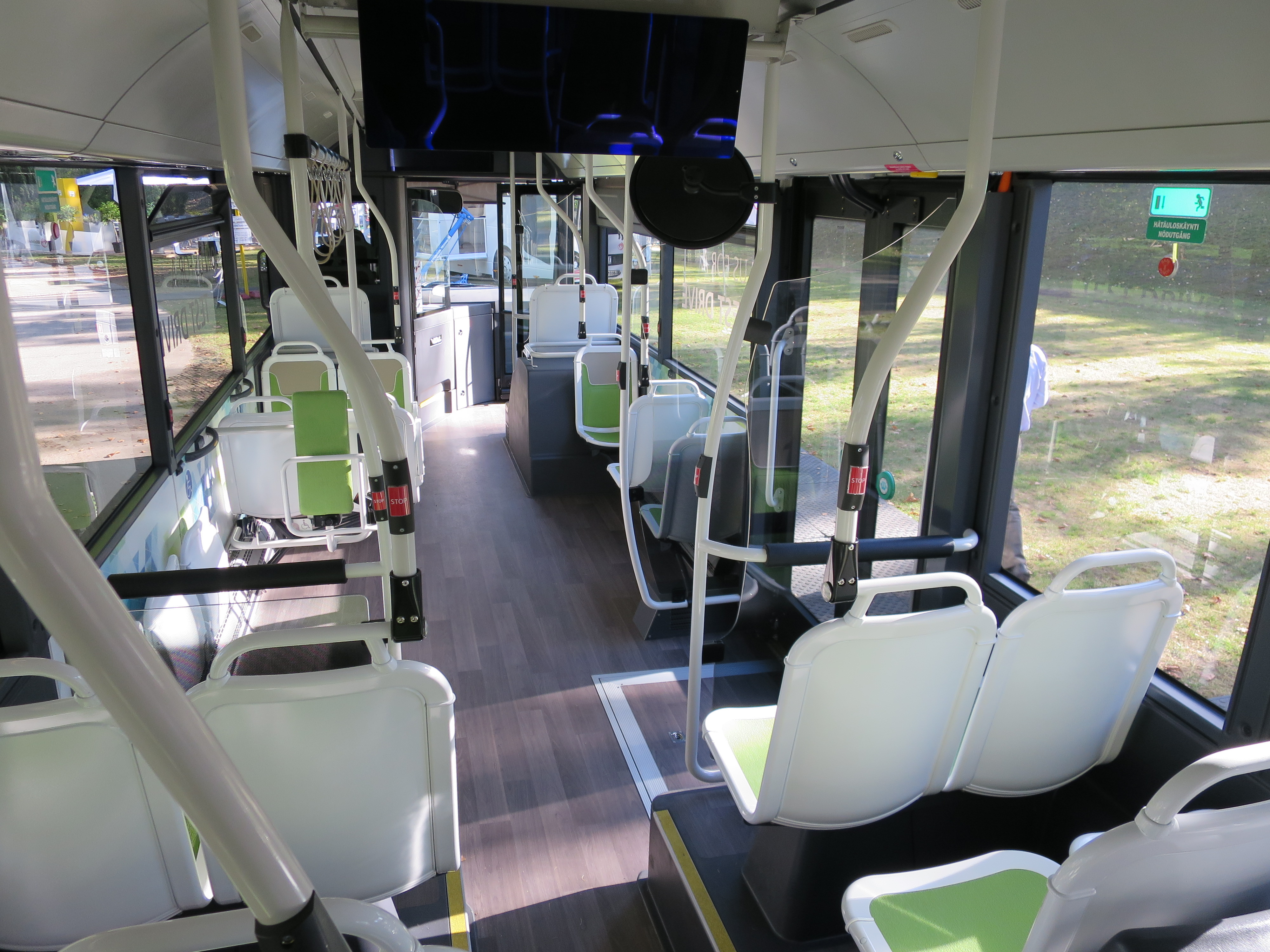 InnoTrans 2016 The making of this document was supported by Wikimedia Polska Association, within Wikigrant no. WG 2016-35.